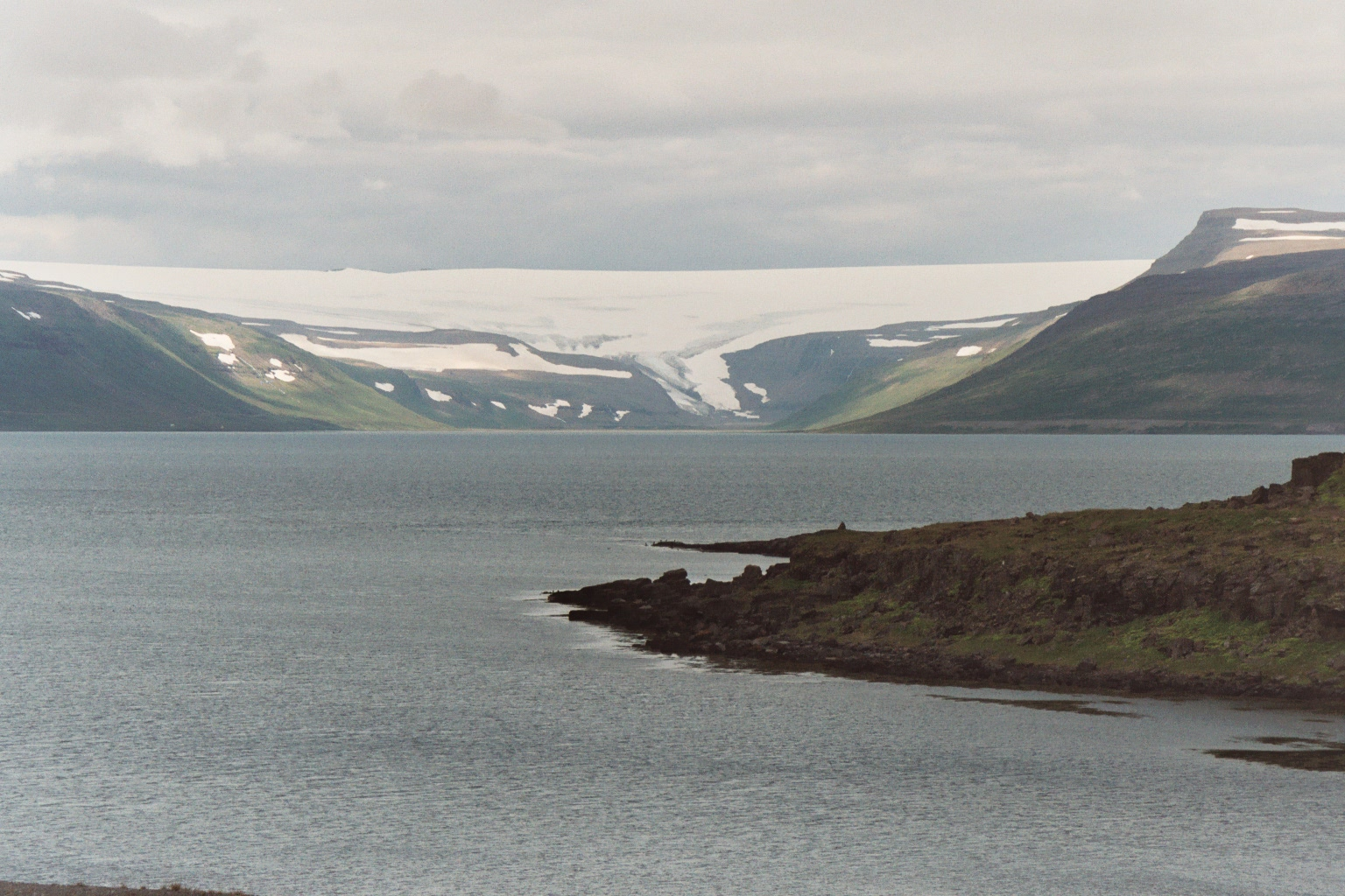 The Drangajökull Author: Johann Dréo (User:Nojhan) Date: 2004, july Notes: The glacier flowing into a fjord, in the region of the west fjords, in Iceland.